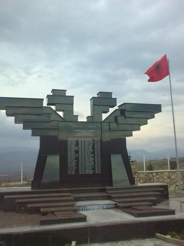 shqiponja